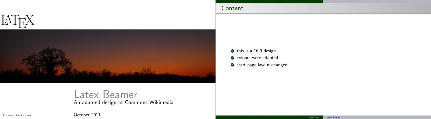 A Latex Beamer example with modified design (16:9, start page layout changed, colours changed)